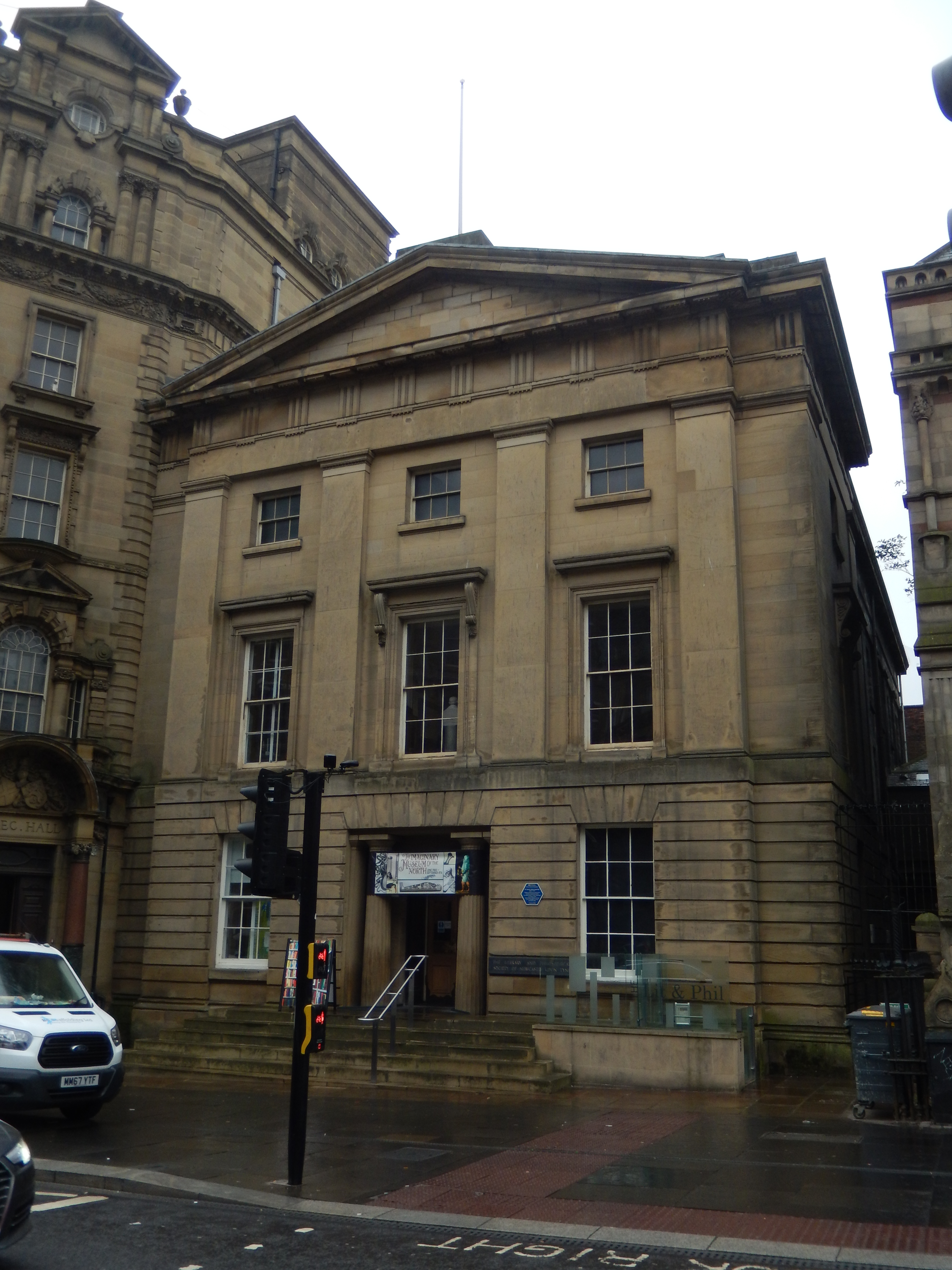 Literary and Philosophical Society of Newcastle upon Tyne Wikidata has entry Q6647654 with data related to this item.